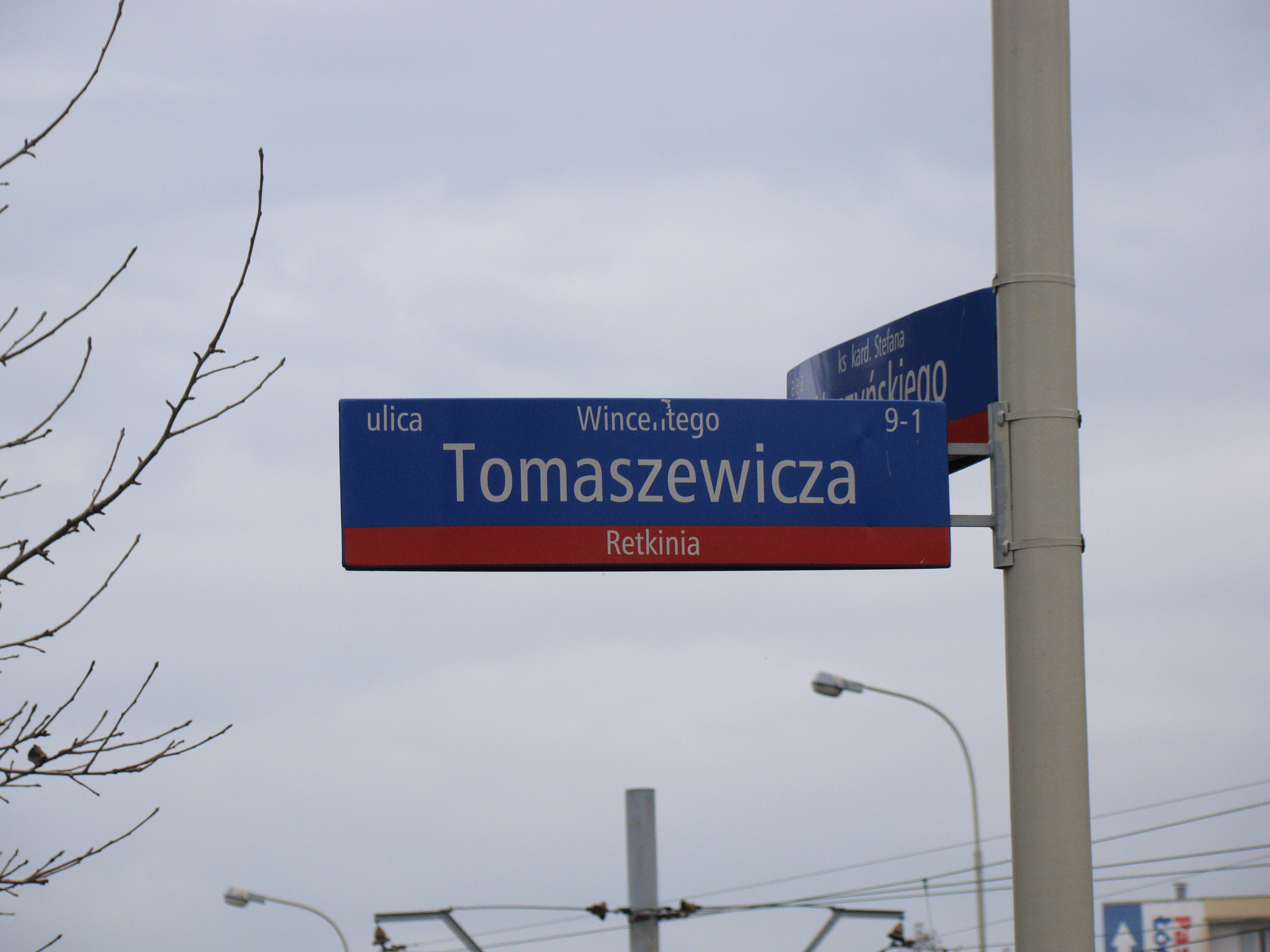 Street sign in Łódź